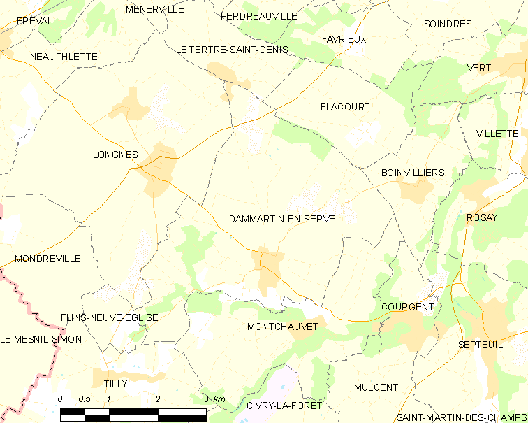 Map of French municipality Dammartin-en-Serve